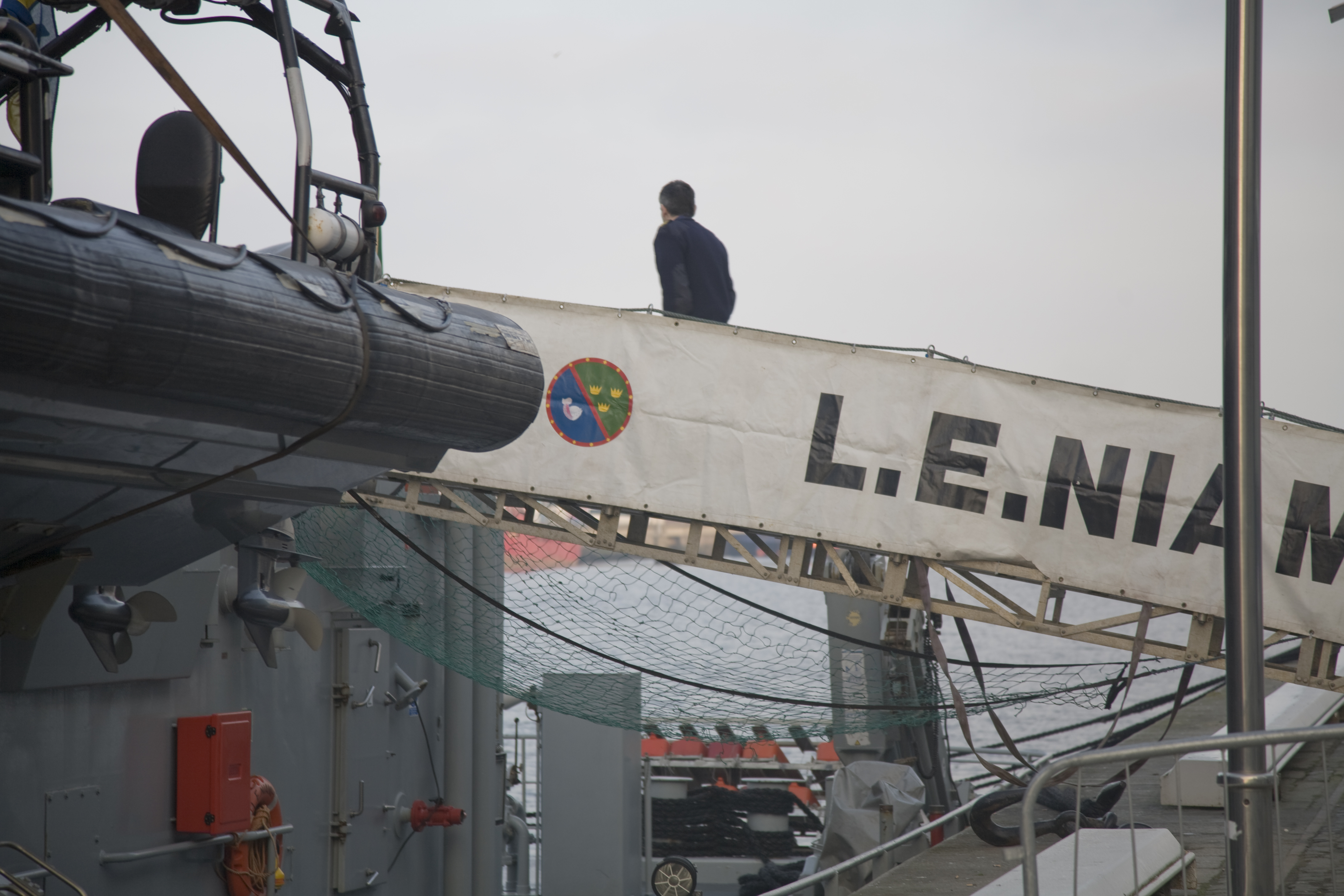 LÉ Niamh - Irish Navy